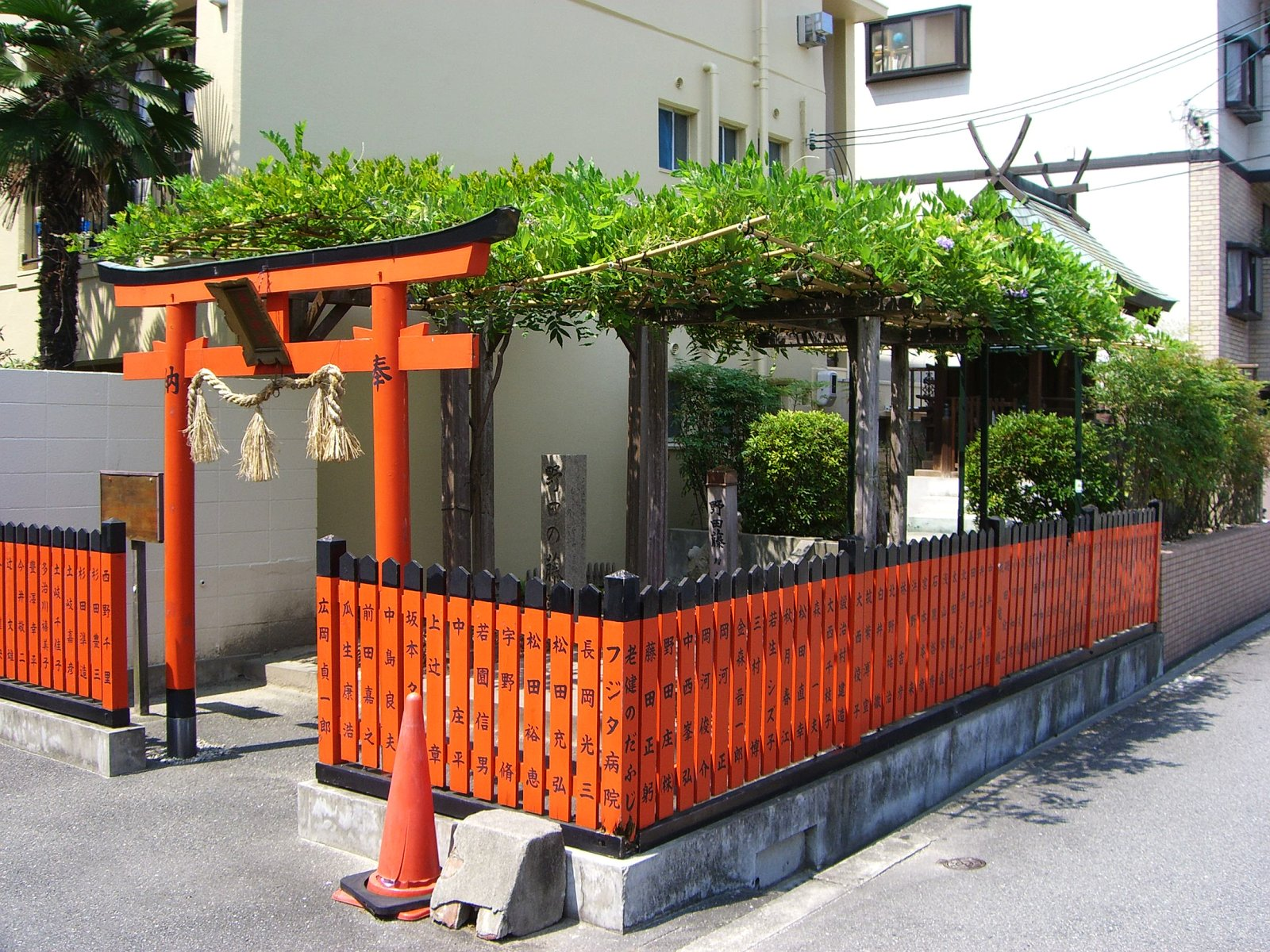 Kasuga Shrine, Fukushima-ku, Osaka City, Japan